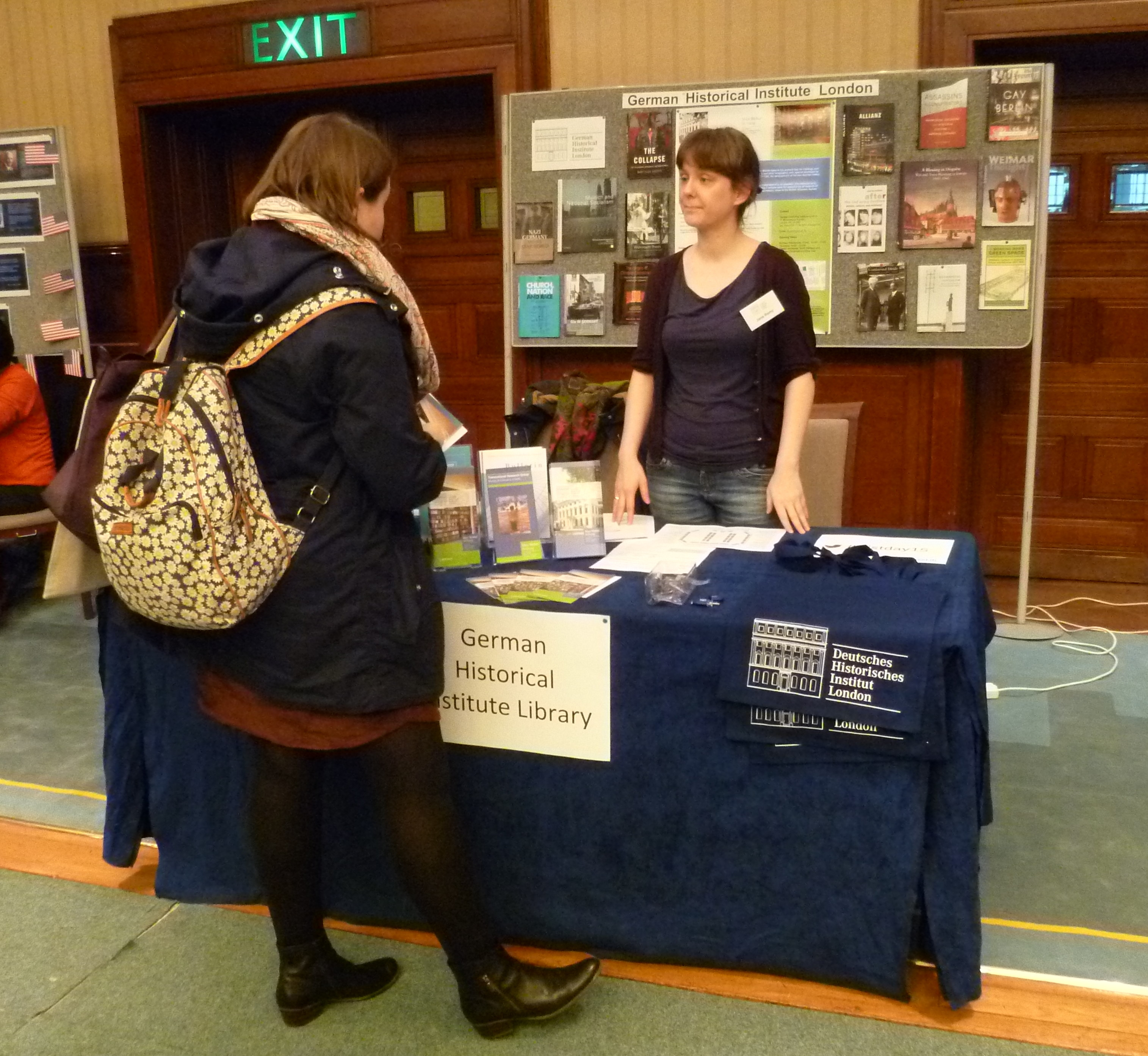 German Historical Institute London School Adv Studies History Day 27 Nov 2015